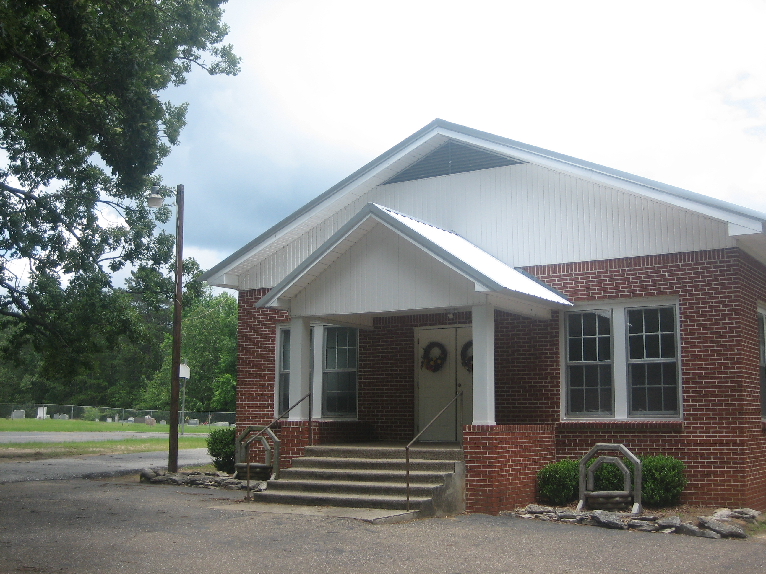 I took photo on May 24, 2009.